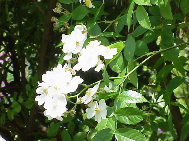 Species: Rosa beggeriana Family: Rosaceae Image No. 2